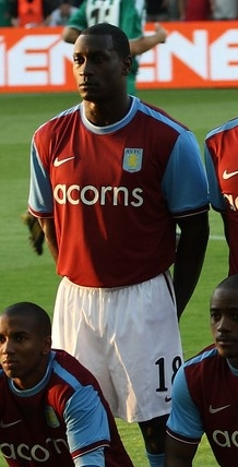 Emile pik Heskey